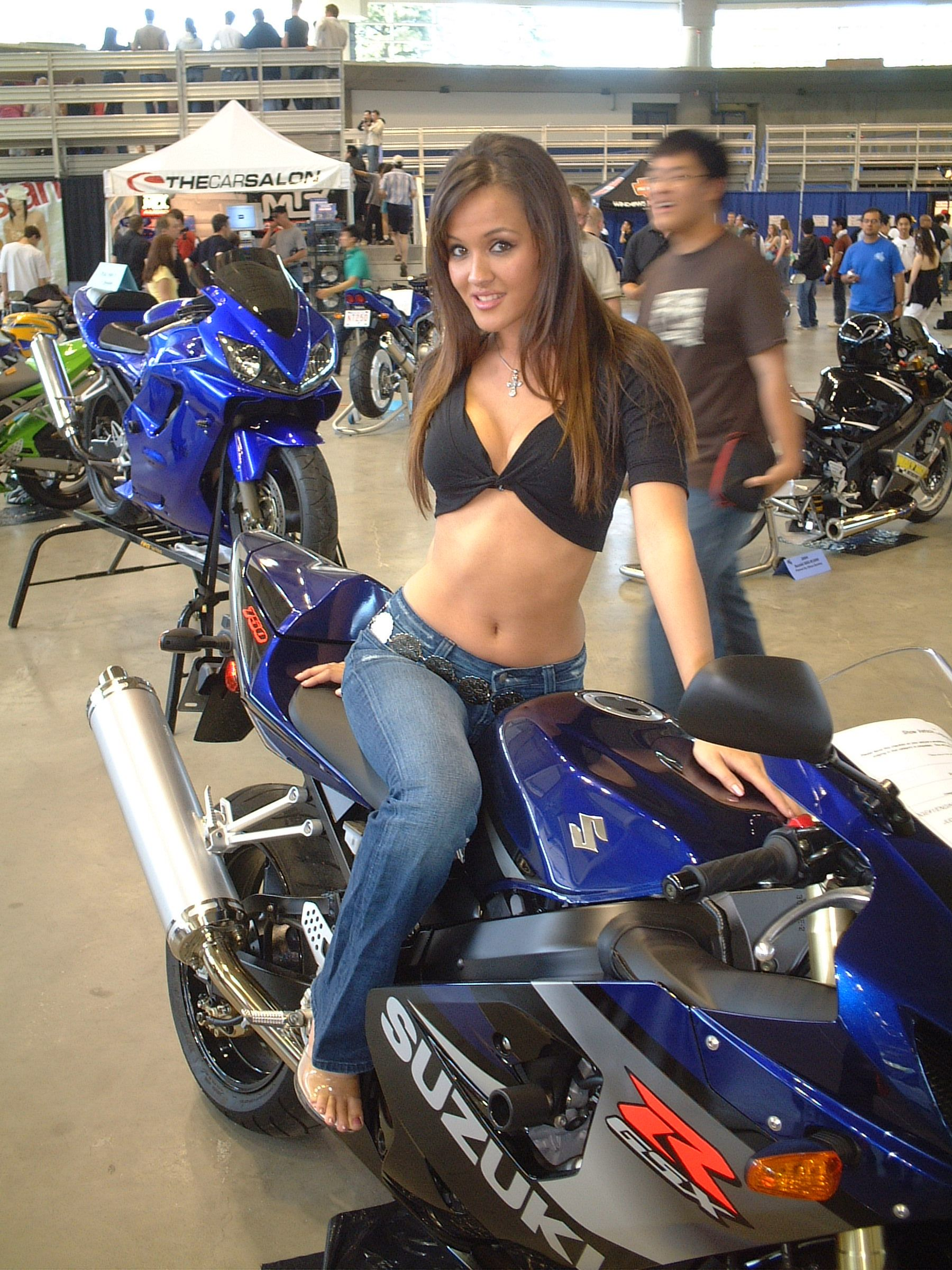 Crystal Lowe, taken at Driven To Perform - Calgary, Saturday, May 28 2005 Original image from Author: Jason Tse Confirmed with uploader that he himself took this image with his own camera. I believe the image must be licensed under the GFDL but will confirm if the uploader does not wish to use that license. --Yamla 22:06, 27 March 2007 (UTC)